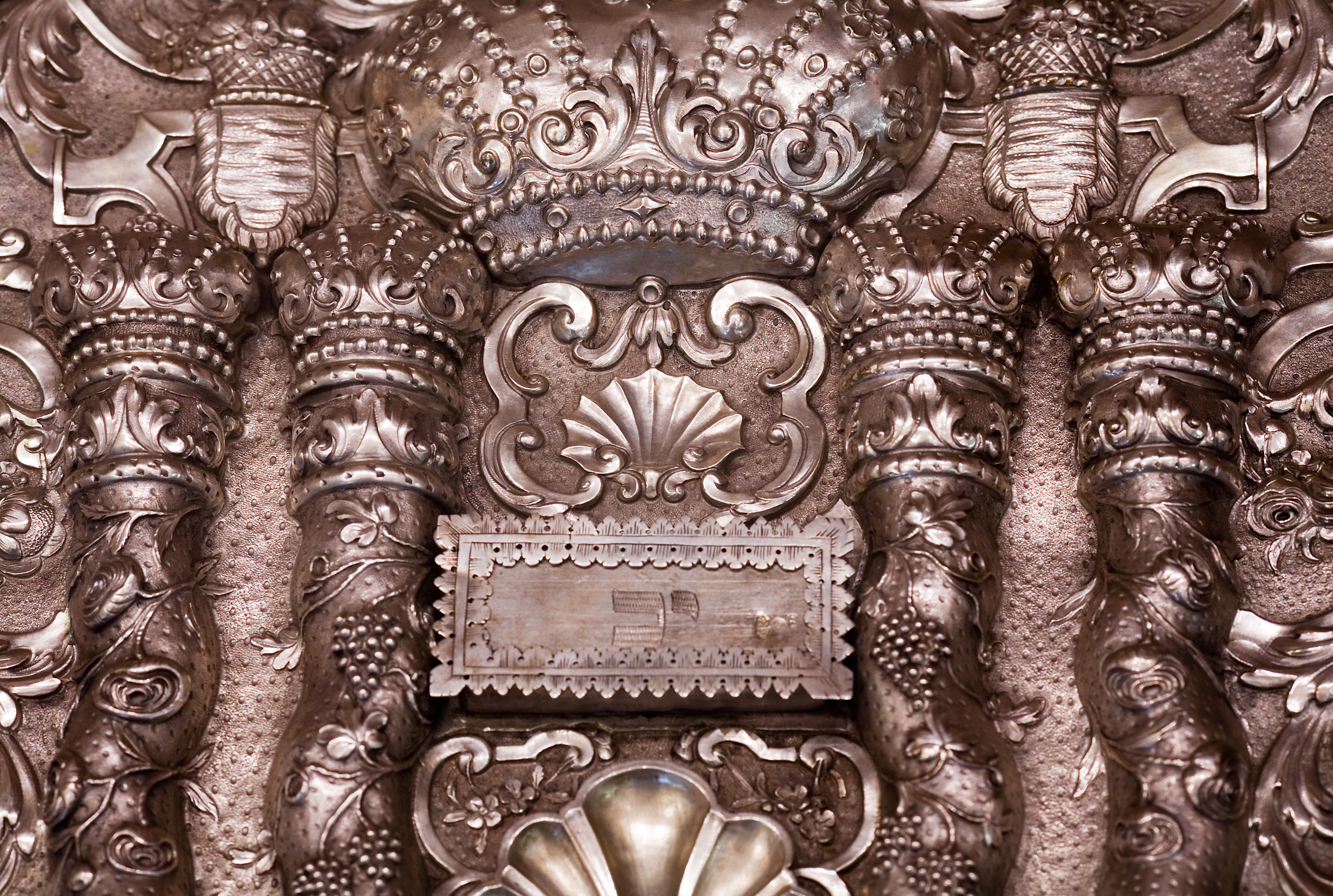 Jewish Silver Torah Shield